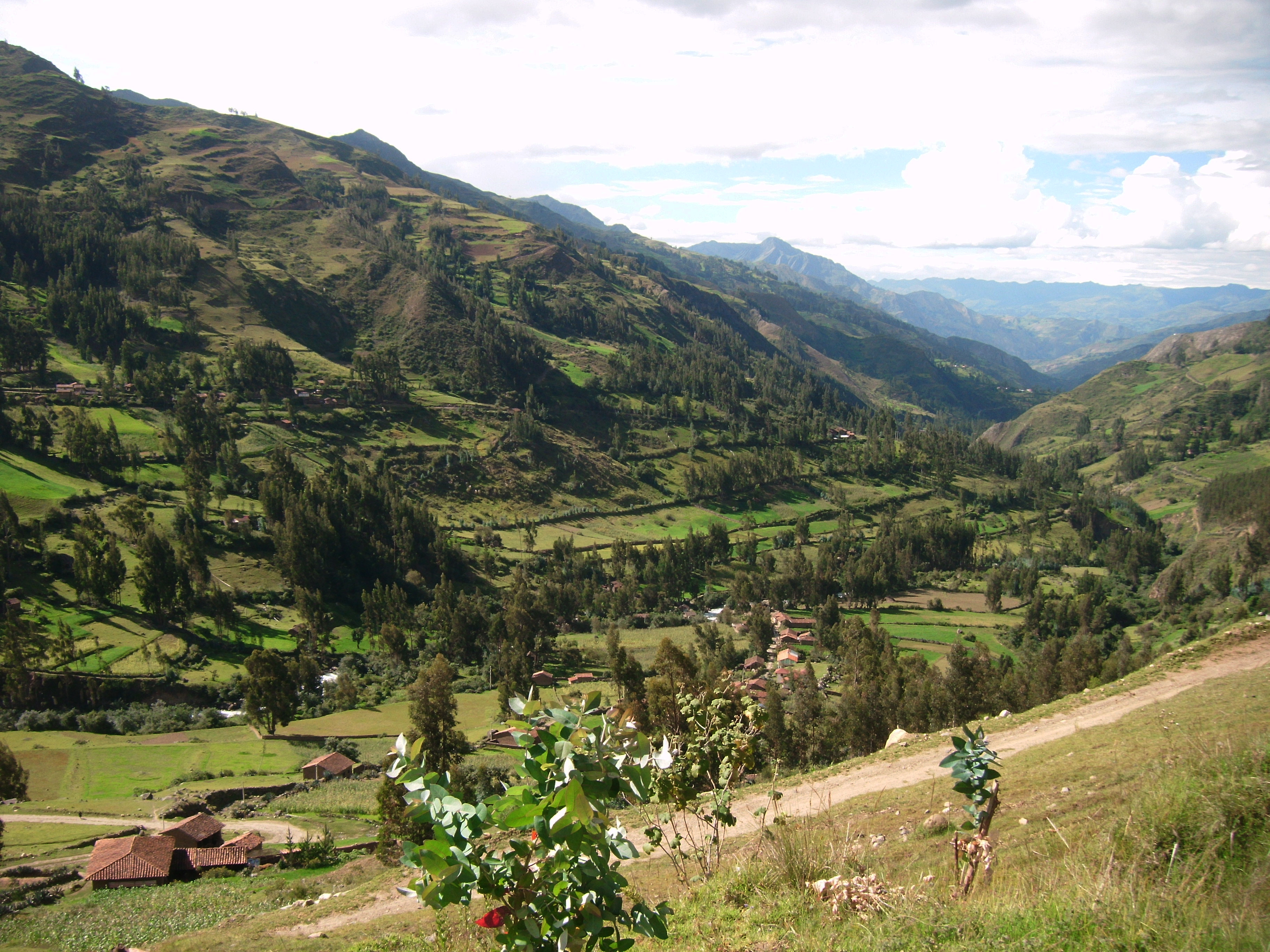 The town of Chucpin 2780 meters.